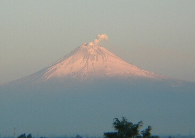 by David Tuggy